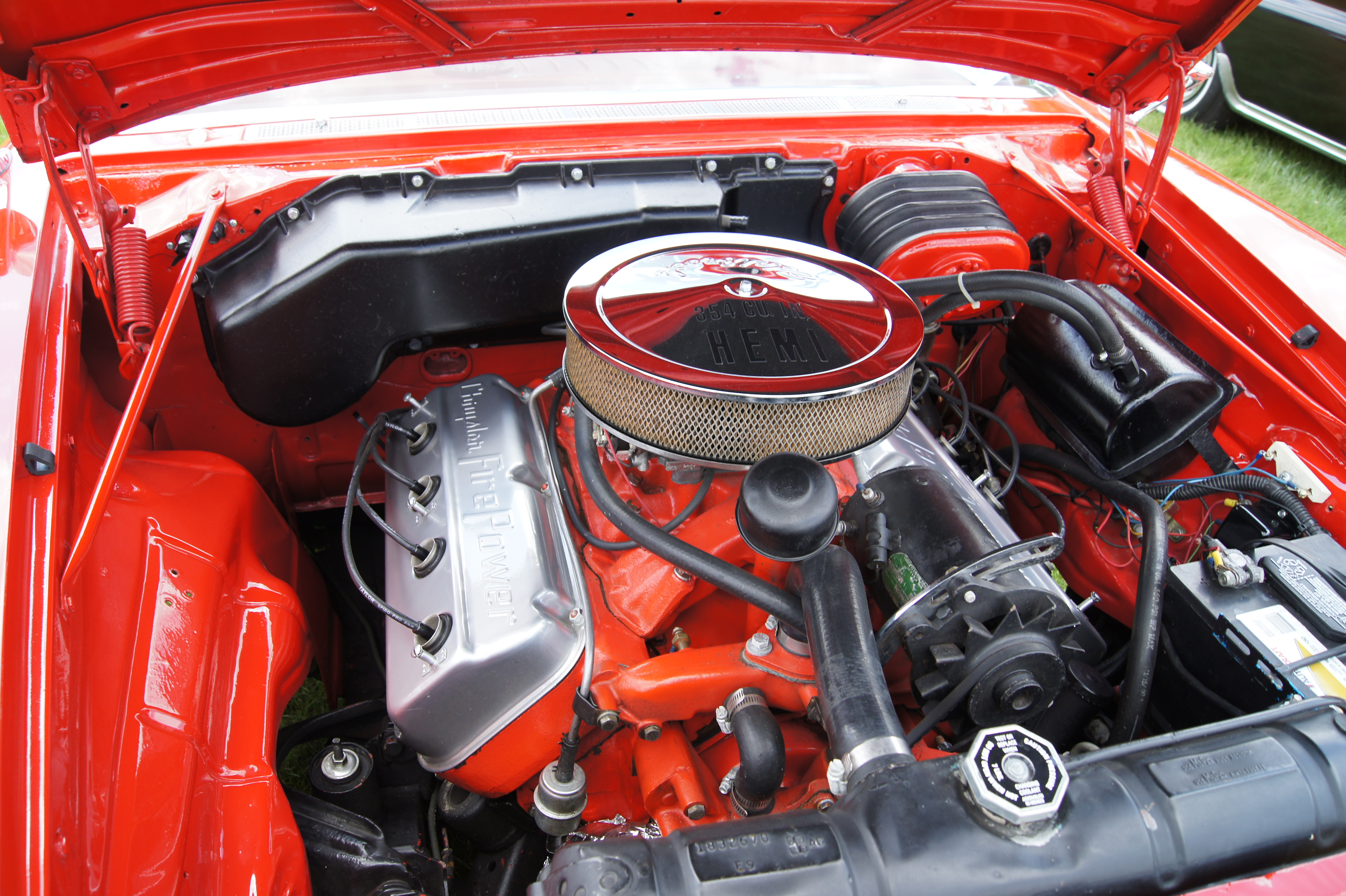 28th Annual Midwest Mopars in the Park June 2, 2012